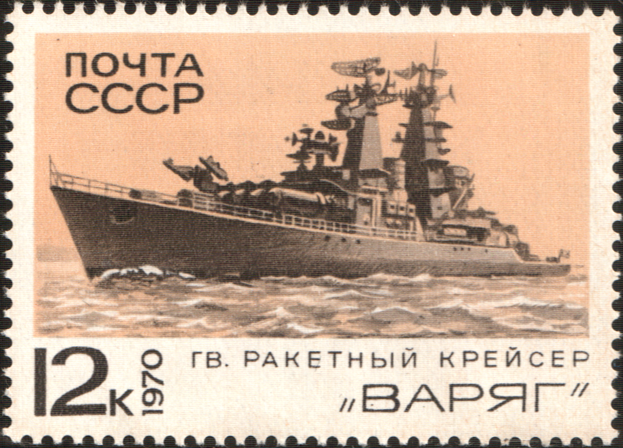 USSR stamp: Missile Cruiser Varyag. Series: Soviet Warships